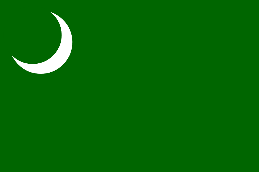 indian national league official flag